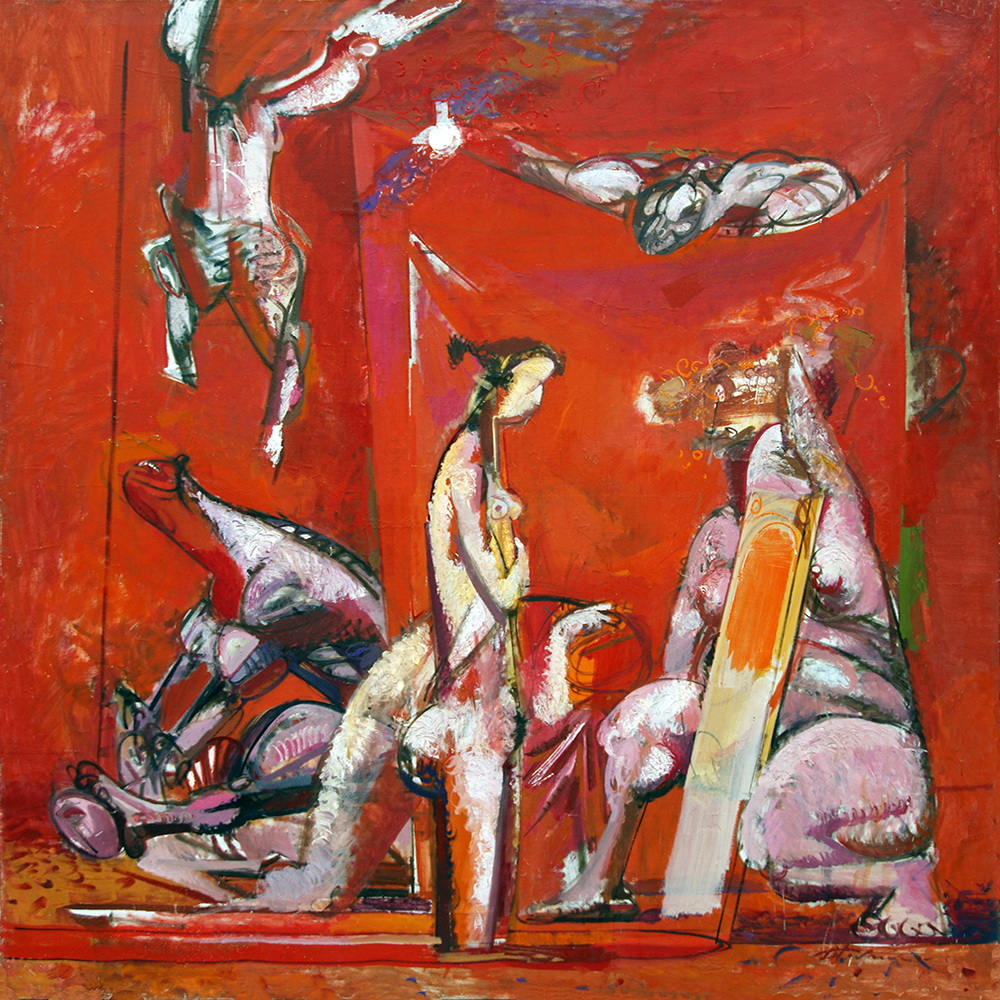 Василий Рябченко. "Red room I", 200 х 200 см, холст, масло, 1989